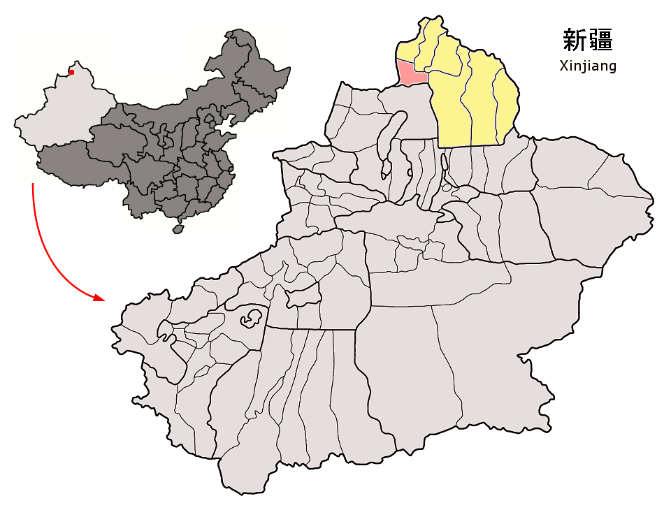 Location of Jeminay County (pink) and Altay Prefecture (yellow) within Xinjiang autonomous region of China Map drawn in september 2007 using various sources, mainly : Xinjiang Uygur autonomous region administrative regions GIS data: 1:1M, County level, 1990 Xinjiang Counties map from